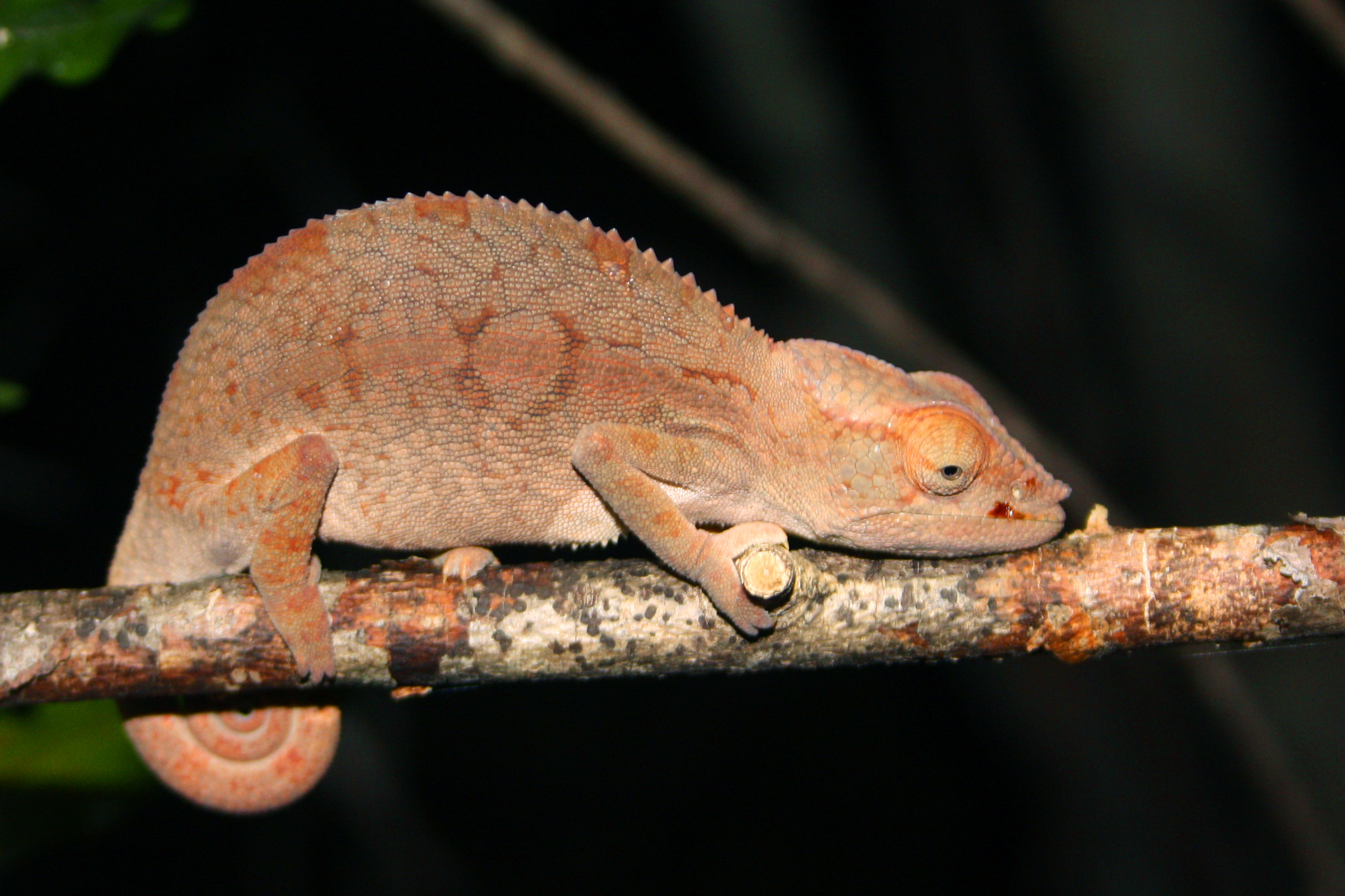 Panther chameleon (Furcifer pardalis), female, Anjajavy Forest, Madagascar